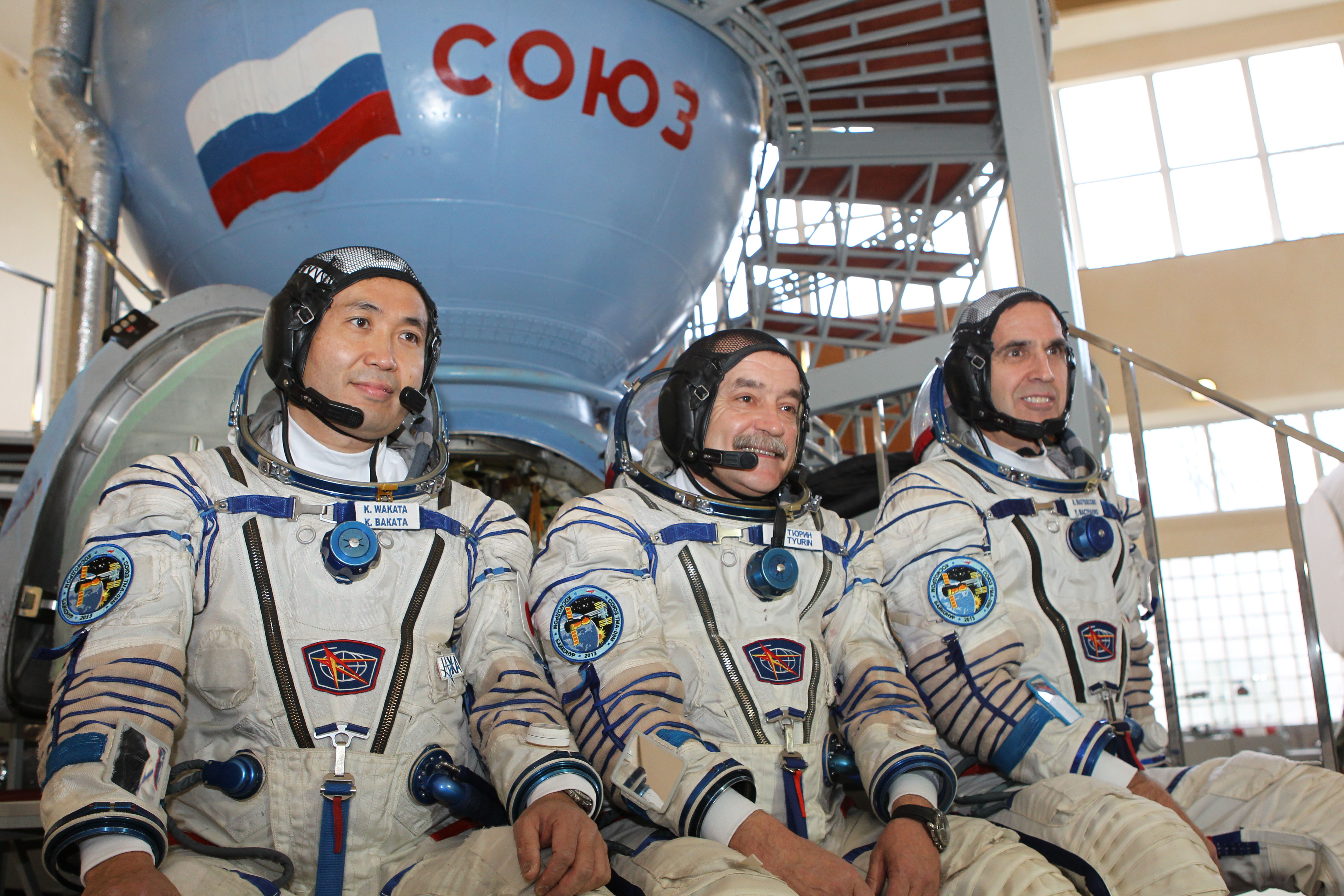 At the Gagarin Cosmonaut Training Center in Star City, Russia, backup Expedition 36/37 crew members Koichi Wakata of the Japan Aerospace Exploration Agency (left), Soyuz Commander Mikhail Tyurin (center) and Rick Mastracchio of NASA (right) pose for pictures May 6 during qualification exams in support of the prime crewmembers preparing for launch to the International Space Station. The prime crew, NASA's Karen Nyberg, Soyuz Commander Fyodor Yurchikhin and Luca Parmitano of the European Space Agency are set to launch from the Baikonur Cosmodrome in Kazakhstan in their Soyuz TMA-09M spacecraft on May 29, Kazakh time, for a five-month mission.